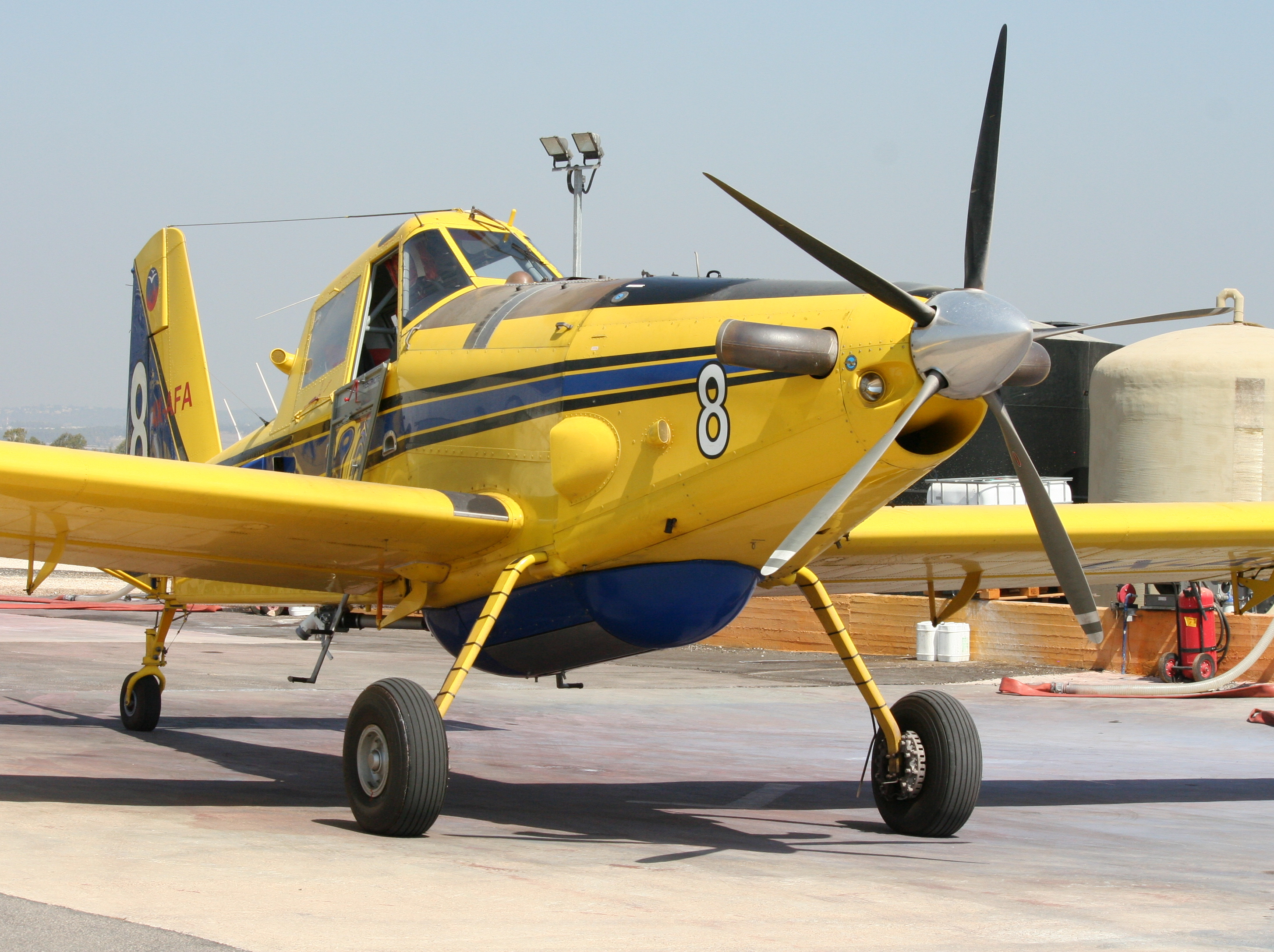 Air Tractor AT802, Firefighting Squadron 249 of the Israeli Air Force, at Megido Airstrip (LLMG)